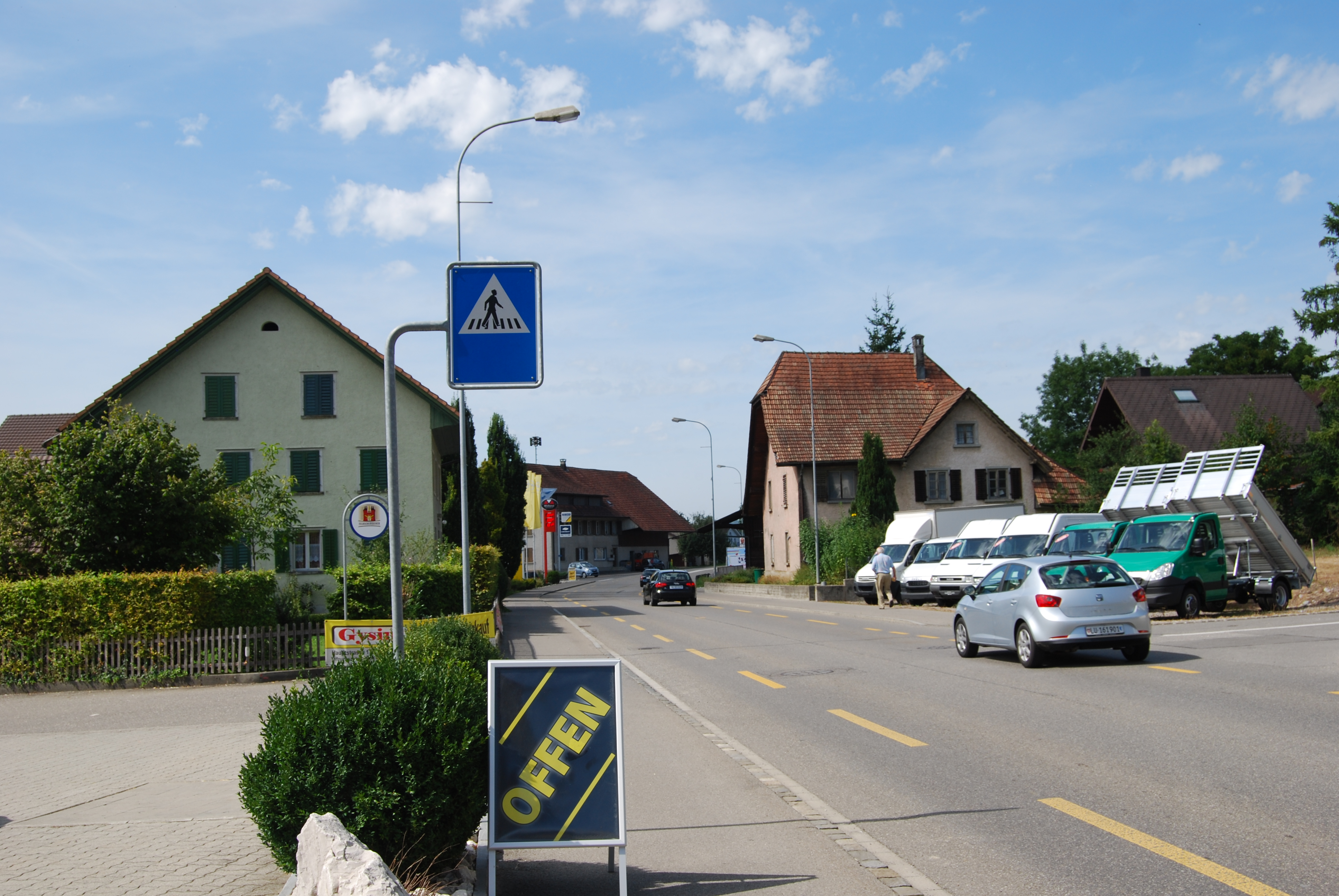 Zetzwil, canton of Aargau, SwitzerlandEsperanto: Zetzwil, Kantono Argovio, Svislando